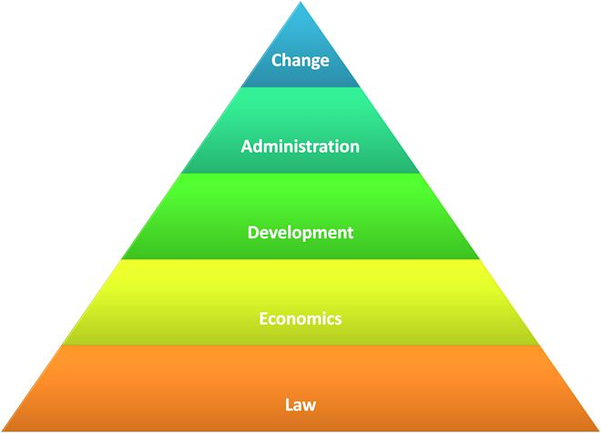 Layers of social concern: corresponds to the five fundamental principles of PROUT